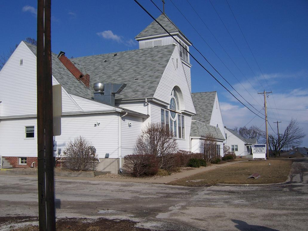 Damage left by an EF0 (Enhance Fujita scale level 0) on March 1, 2007 in Macon, Illinois, USA.